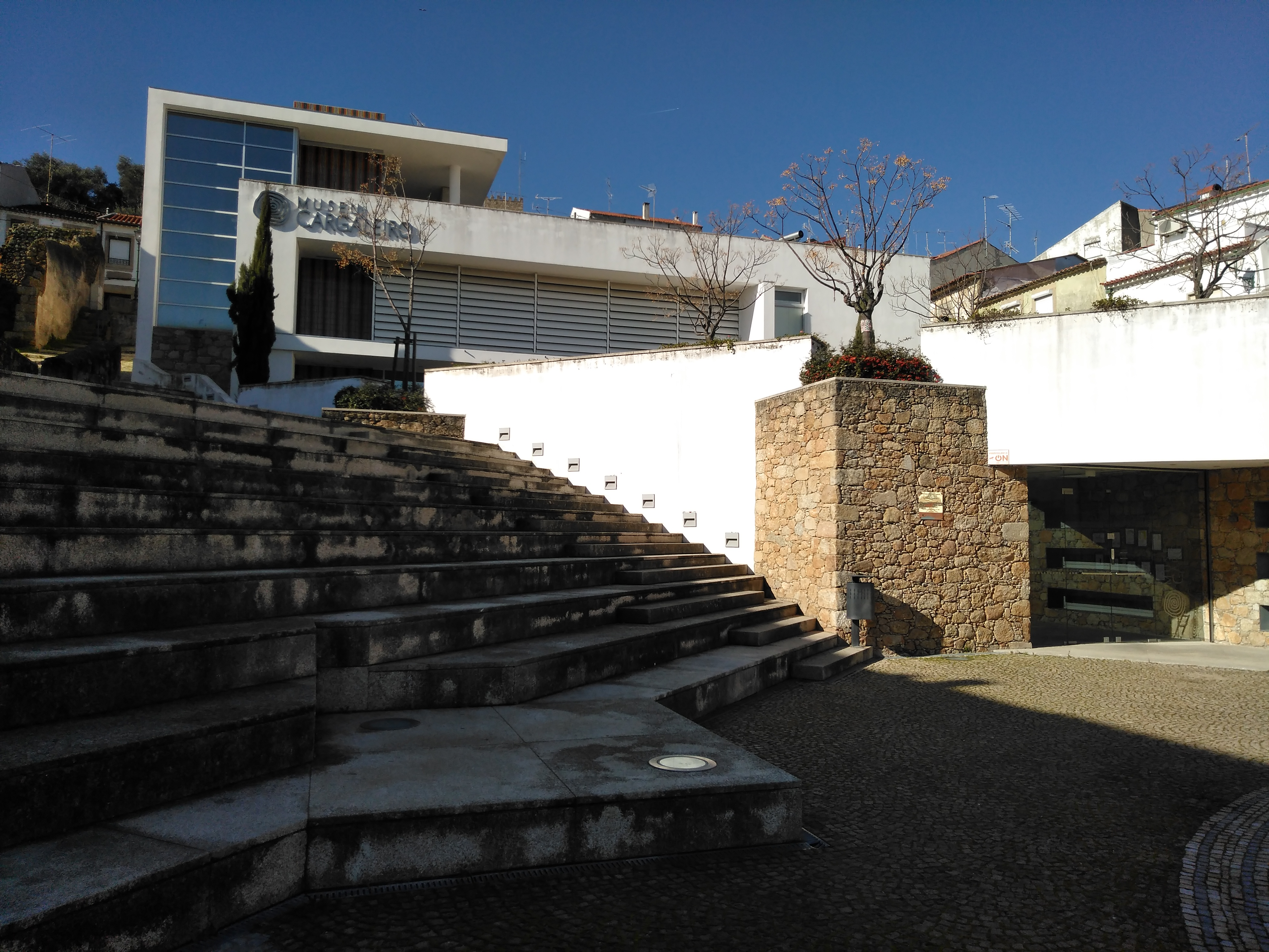 Museu do Cargaleiro